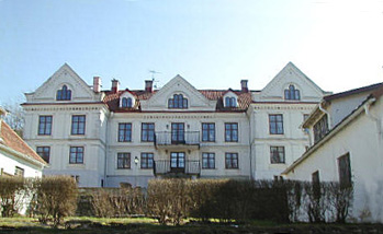 Lummelunda bruk manor.